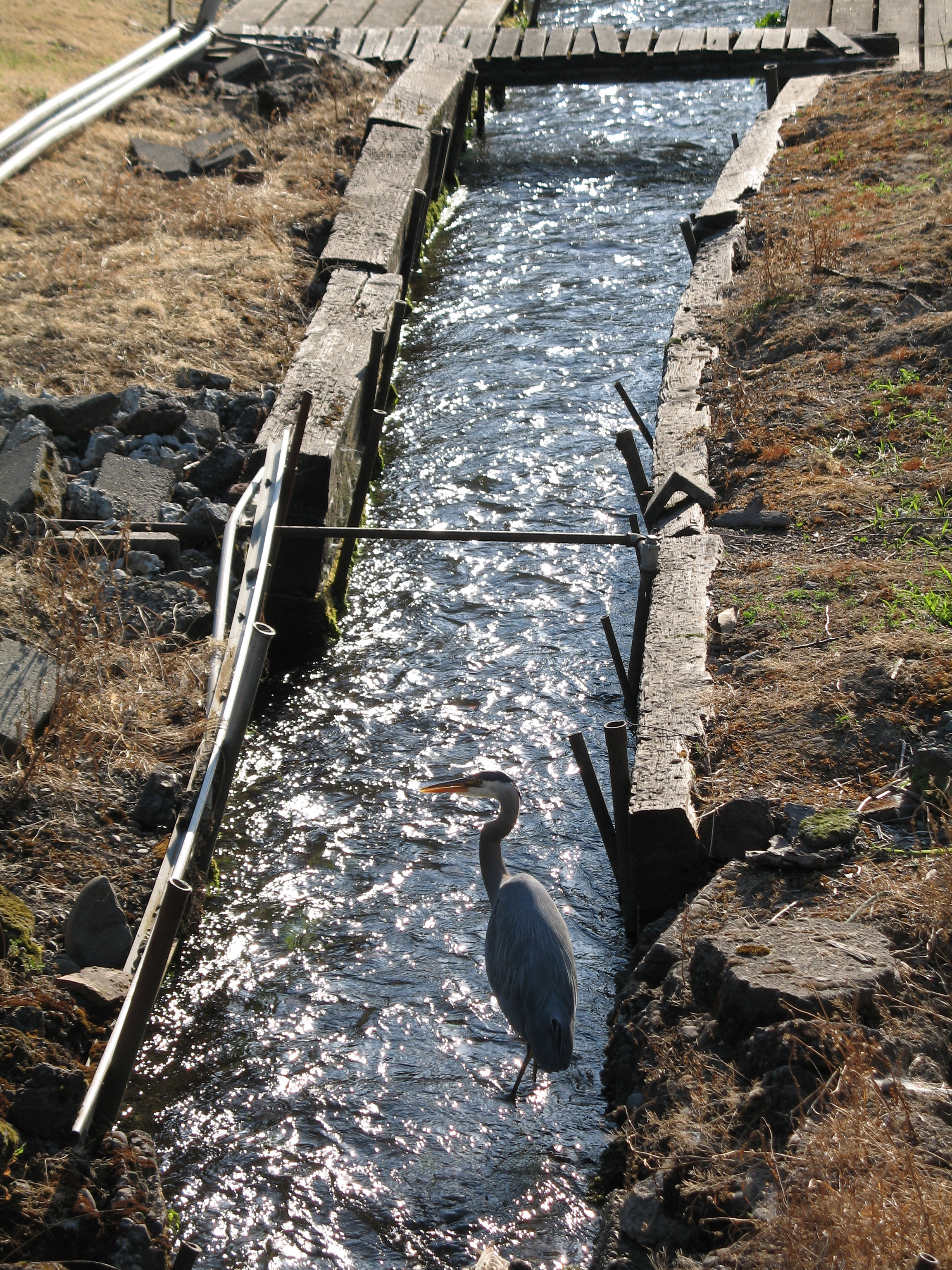 A Great Blue Heron wading, in Portland, Oregon, just outside Reed College.